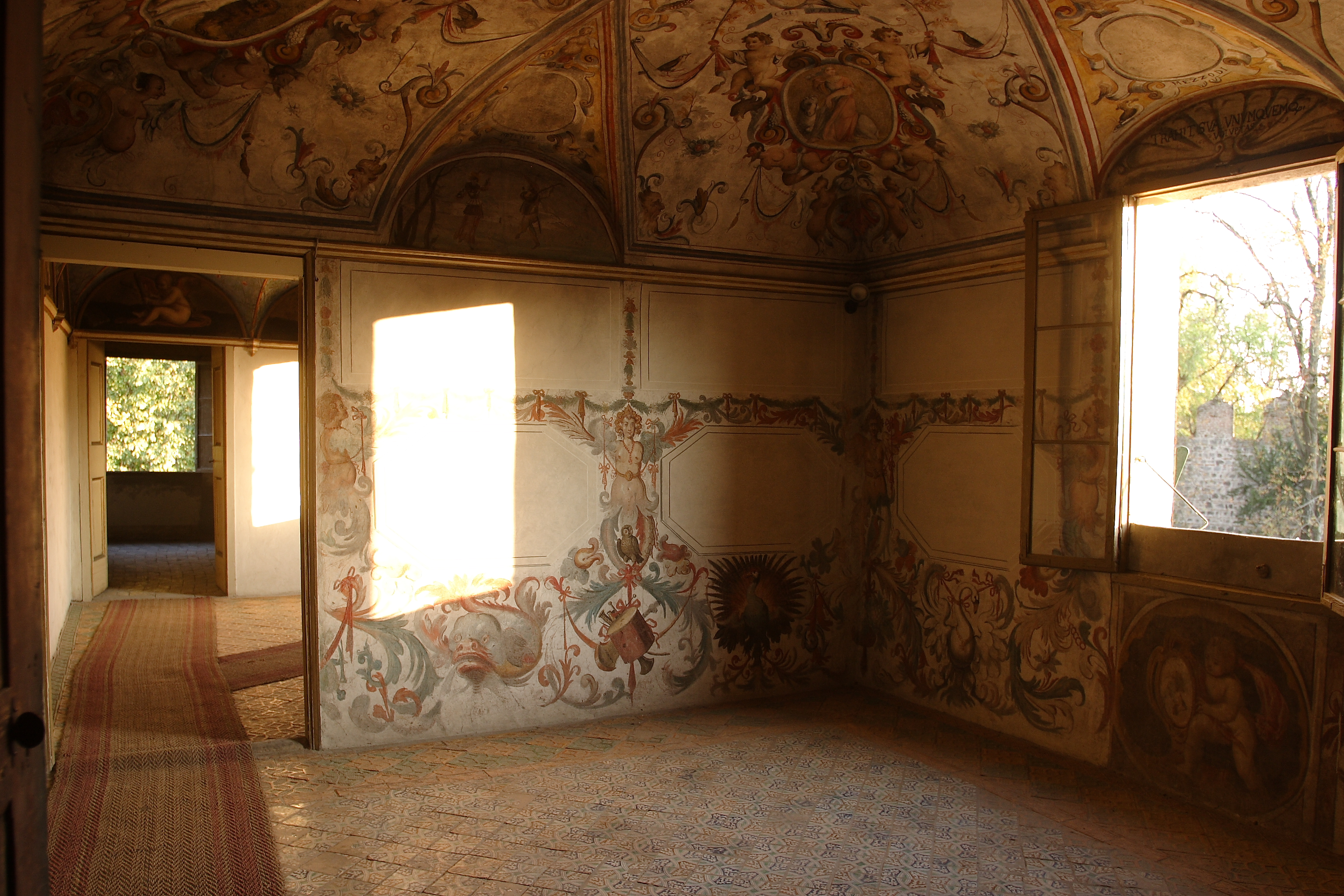 The Frescoes Chambers